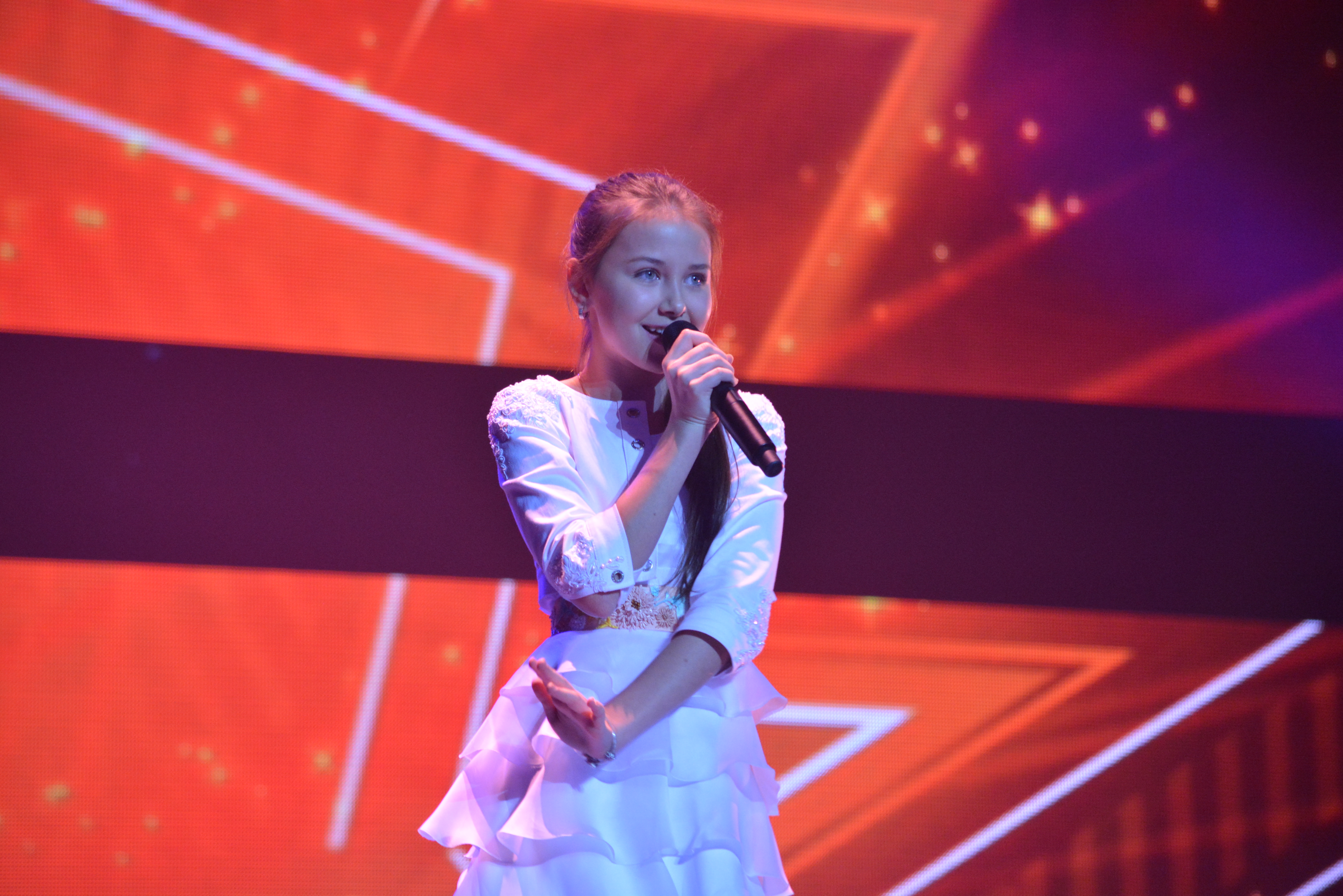 JESC 2013 (Ukraine) Sofia Tarasova at rehearsal